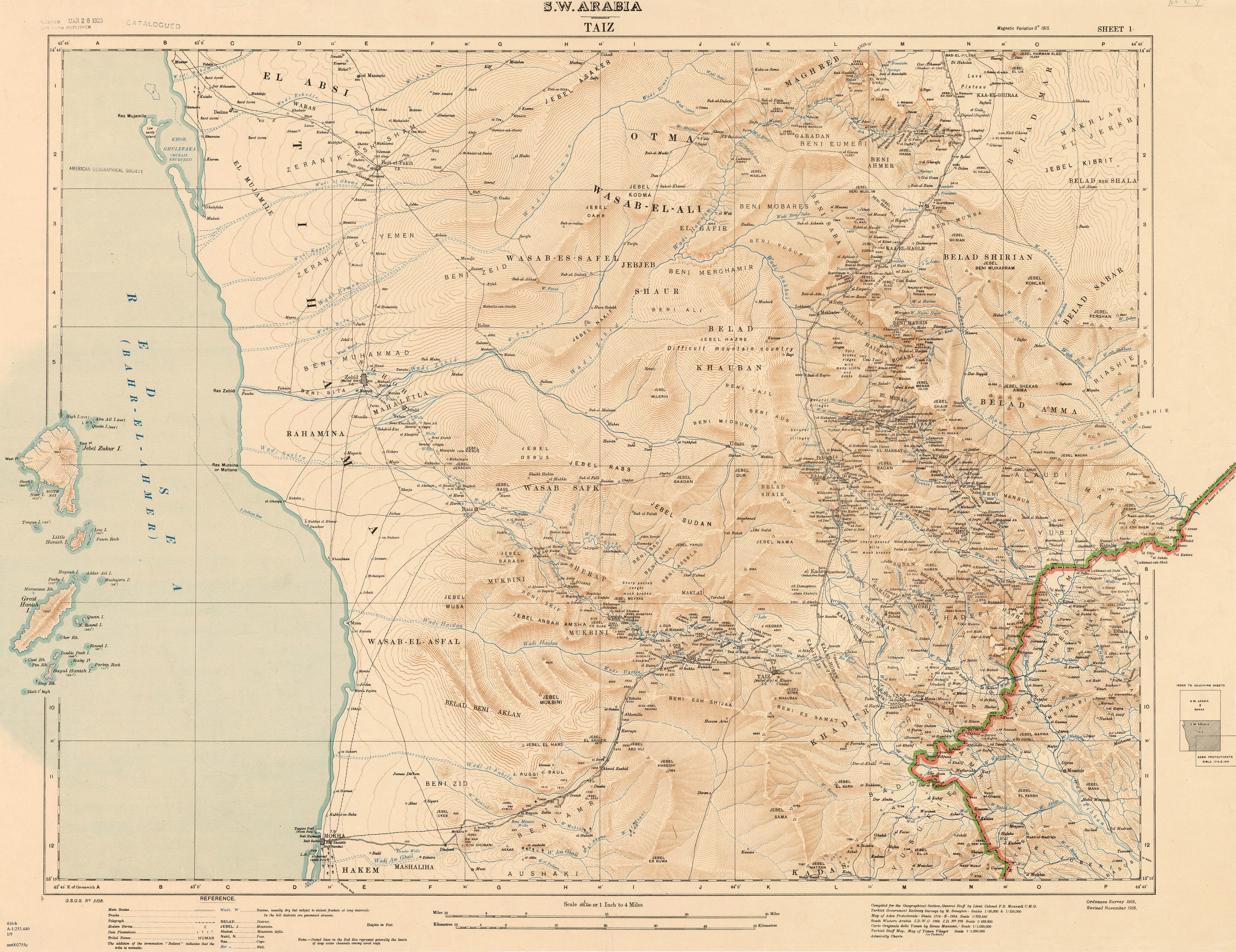 This 1916 map shows the southwestern part of the Arabian Peninsula, an area in the present-day Republic of Yemen. The large scale allows for the display of detail about cities and towns, tribes, topographical features, and the inclusion of notes with information not often found on earlier maps of the region. The map covers the sparsely populated mountains in the north to the southern port of Mokha (or Mocha). The broad coastal plain along the Red Sea known as the Tihama is depicted as a thinly populated strand with roads or tracks ascending to the walled towns of Taiz (now Taʻizz) and Ibb in the highlands. Much of the Arabian Peninsula, including present-day Yemen, was part of the Ottoman Empire. Although most British military and political efforts in the early 20th century were concentrated towards the north, the entire region was caught up in the British campaign in World War I to wrest the Middle East from the Ottomans. A version of this map was first published in 1915. The copy shown here is a 1916 revision. Numbers on the map refer to elevations in feet. The map was created by the British Ordnance Survey in cooperation with the Geographical Section of the General Staff at the War Office, which published a series of nine maps of the peninsula covering Ta’izz, Mecca, Taʼif, Kunfuda (or al-Qunfudhah), Wadi Bishah, Abha, Wadi Shehran, Saada, and Sanaʻa. The cartography and ethnography is the product of research by Francis Richard Maunsell (1861−1929), a British army intelligence officer, traveler, and mapmaker.